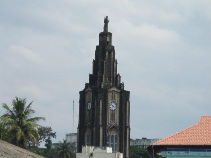 Pala Kurishupalli